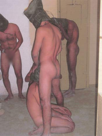 Abu Ghraib 49. 11:57 p.m., Nov. 7, 2003. The detainees were brought into the hard site for their involvement in a riot. The seven detainees were instructed to remove their clothing. Detainees’ stage in this position to make it appear they were performing sexual acts towards each other. All caption information is taken directly from CID materials. U.S. Army / Criminal Investigation Command (CID). Seized by the U.S. Government.